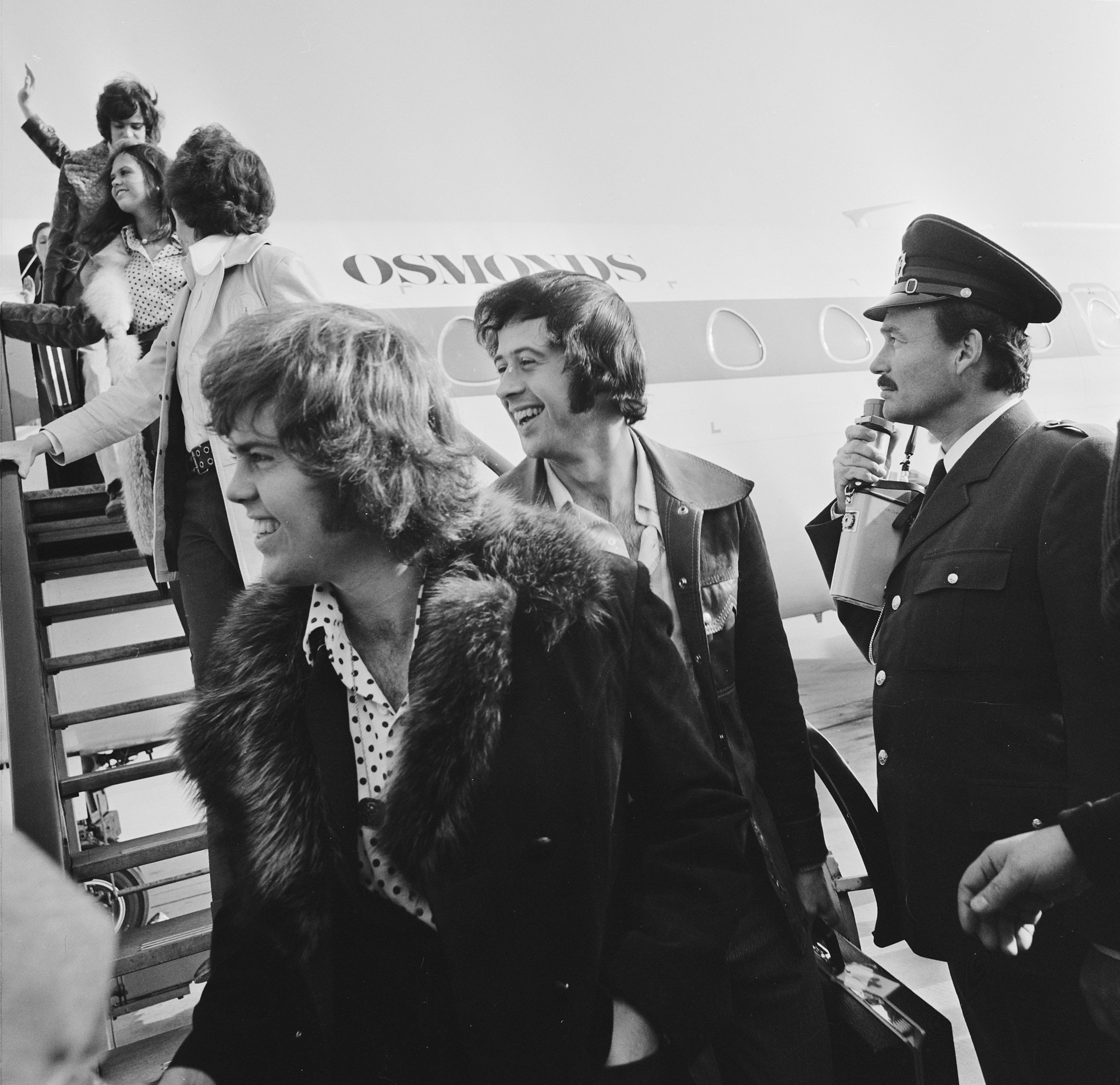 "The Osmonds" arrive at Schiphol Airport (The Netherland), 3 November 1973. Front left: Donny Osmond